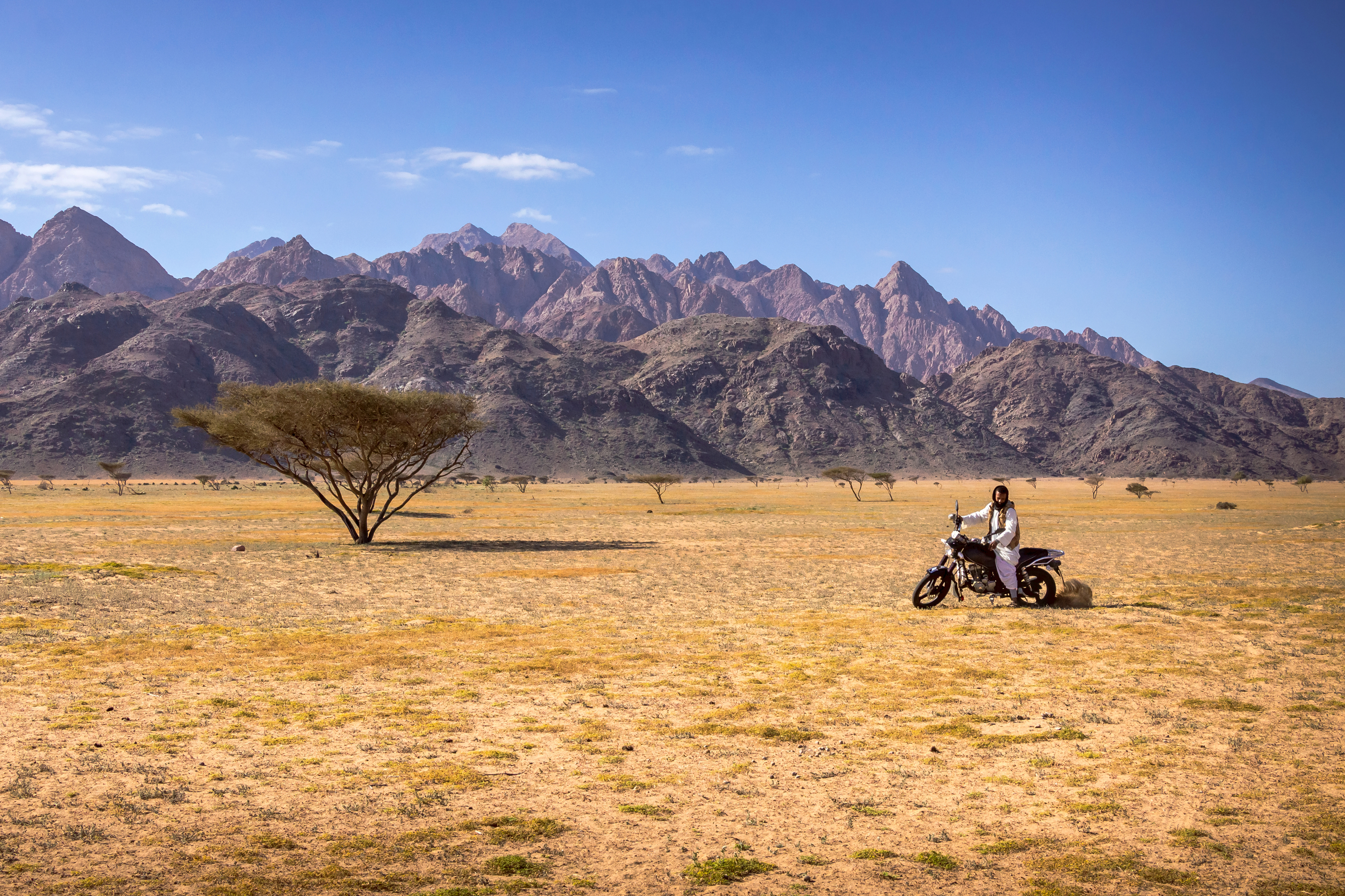 This is an image with the theme "Africa on the Move or Transport" from: Egypt